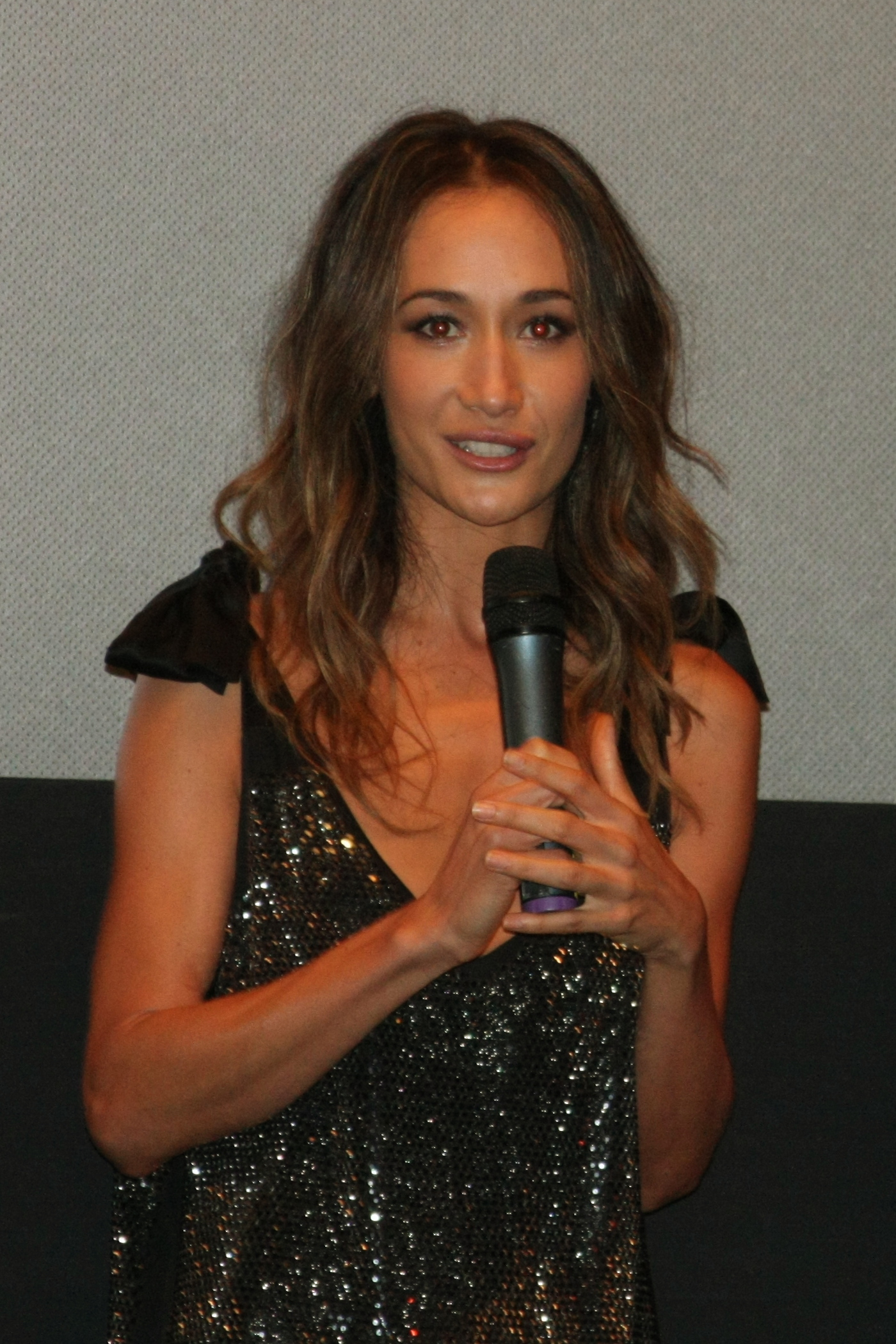 Maggie Q and her crooked smile, which reminds me of Edison Chen.